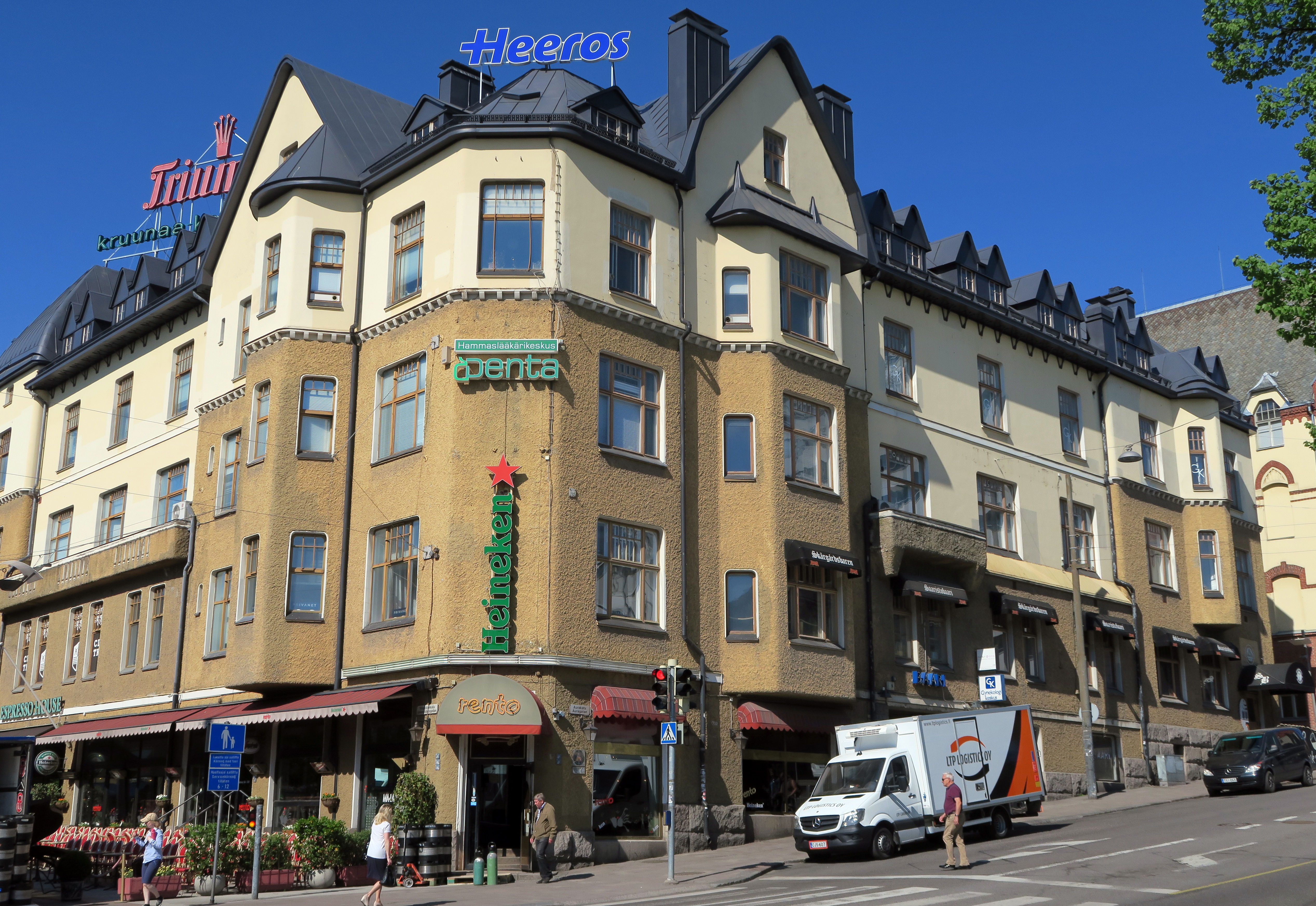 Priman talo (Prima House) Turku Finland 2018.